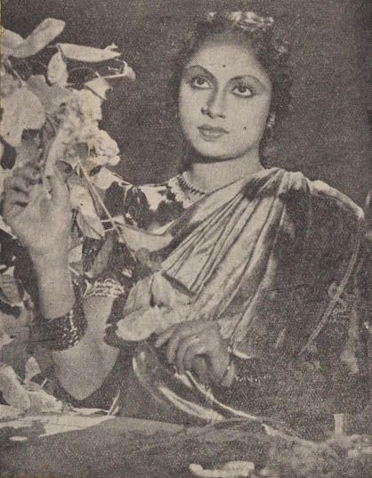 U. R. Jeevaratnam (1927 - 2000), South Indian Tamil actress in Sri Andal 1948 Tamil film